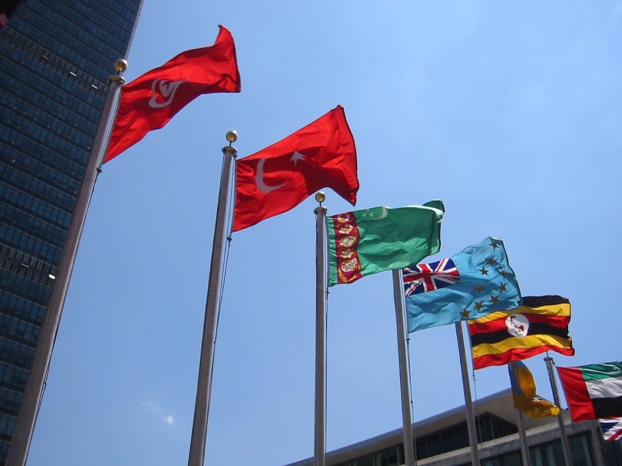 Usable with attribution and link to: turkish flag un new york